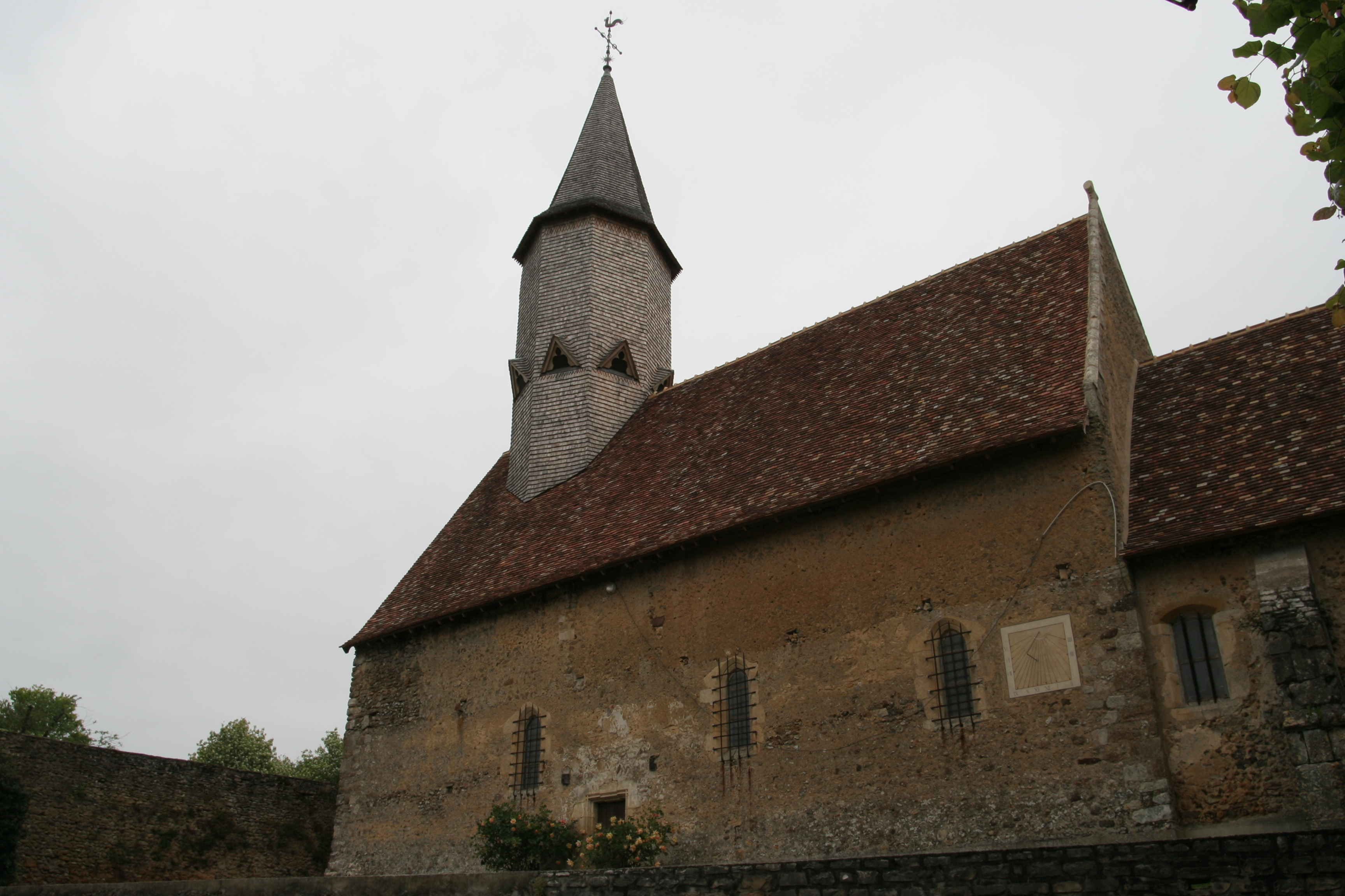 Church of Saint-Denis-des-Coudrais.